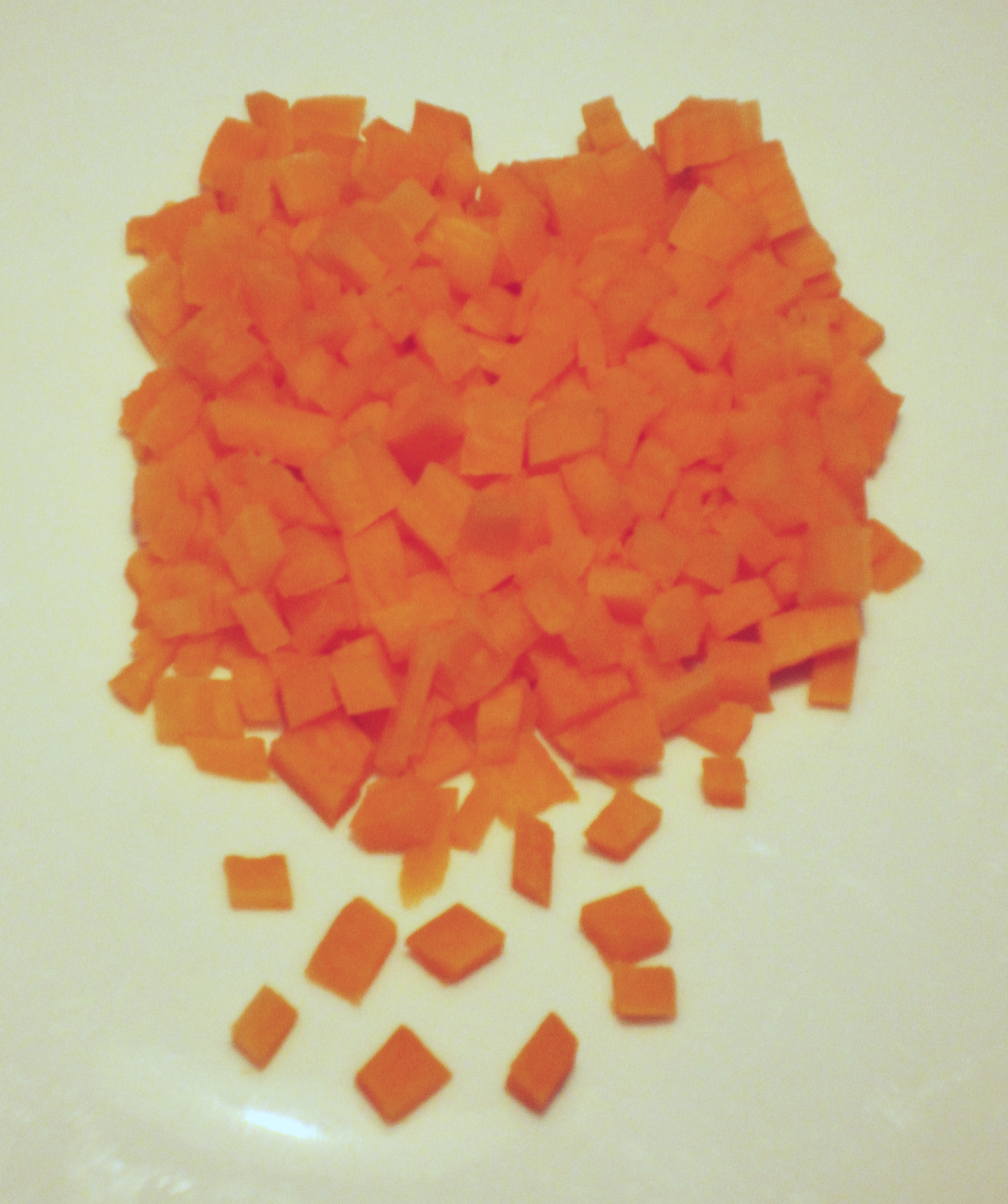 Carots brunoise